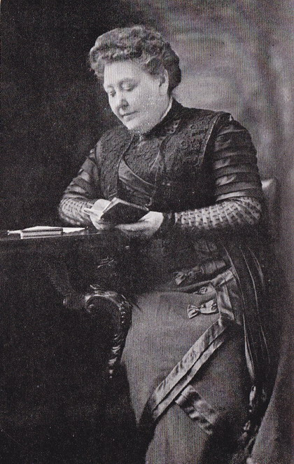 Matilda Ridout Edgar (29 September 1844 - 29 September 1910) was a Canadian-born historian and feminist. She became Lady Edgar in 1898 when her husband was knighted. This image was published in "Sketch of Lady Edgar's Life" in (1914) Transaction No. 8, Women's Canadian Historical Society